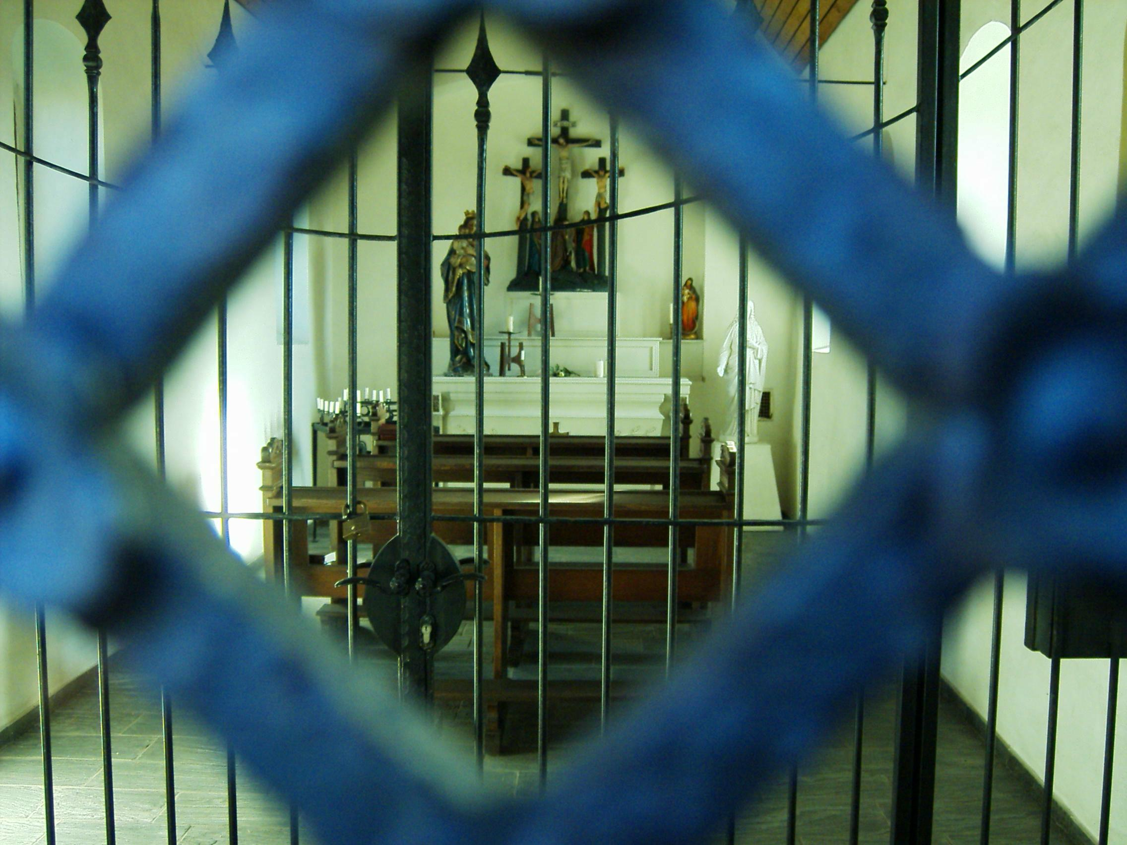 Thiekluse in Rheine, Germany